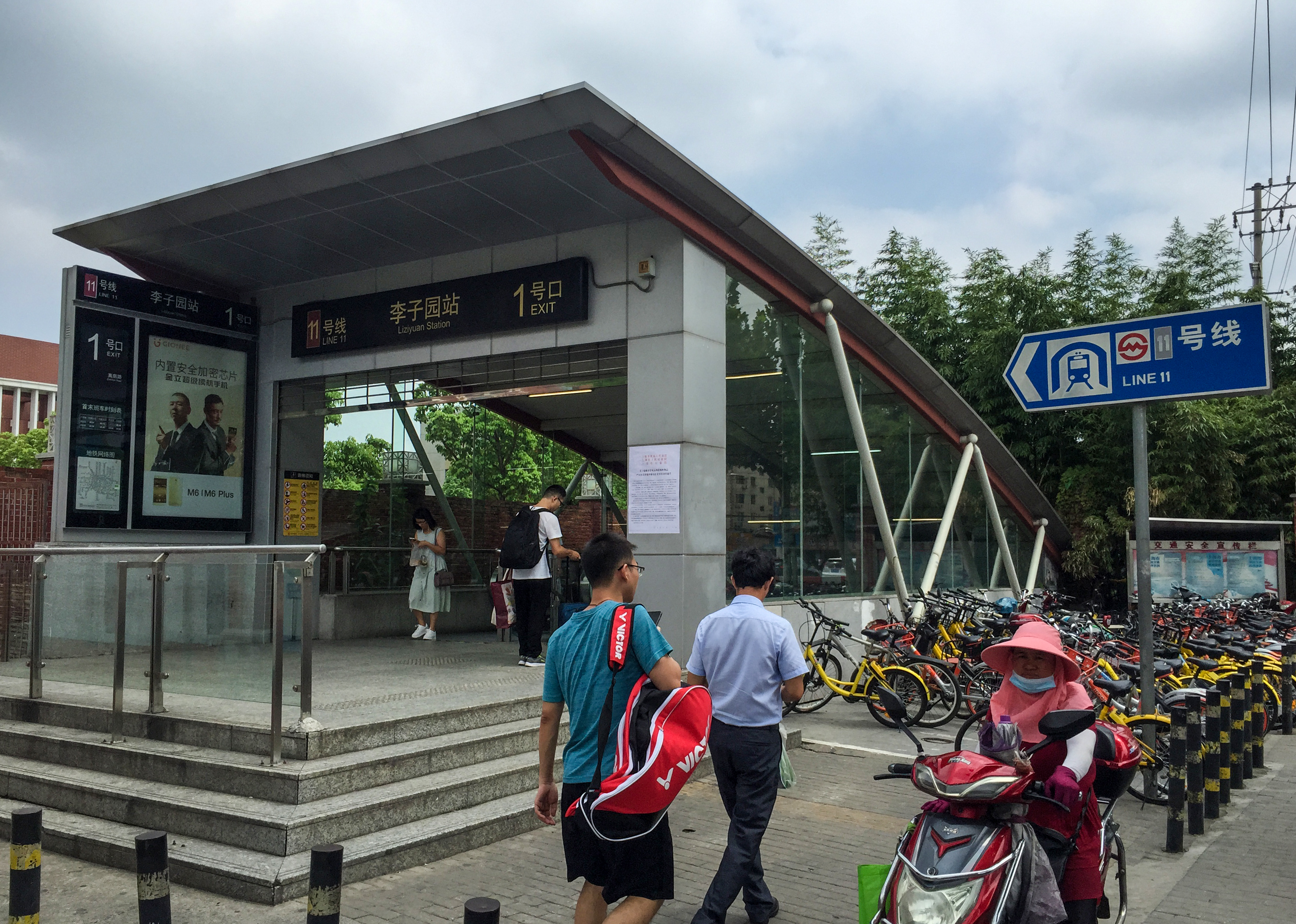 Adjacent to Tongji University Huxi Campus (ex Shanghai Railway College).